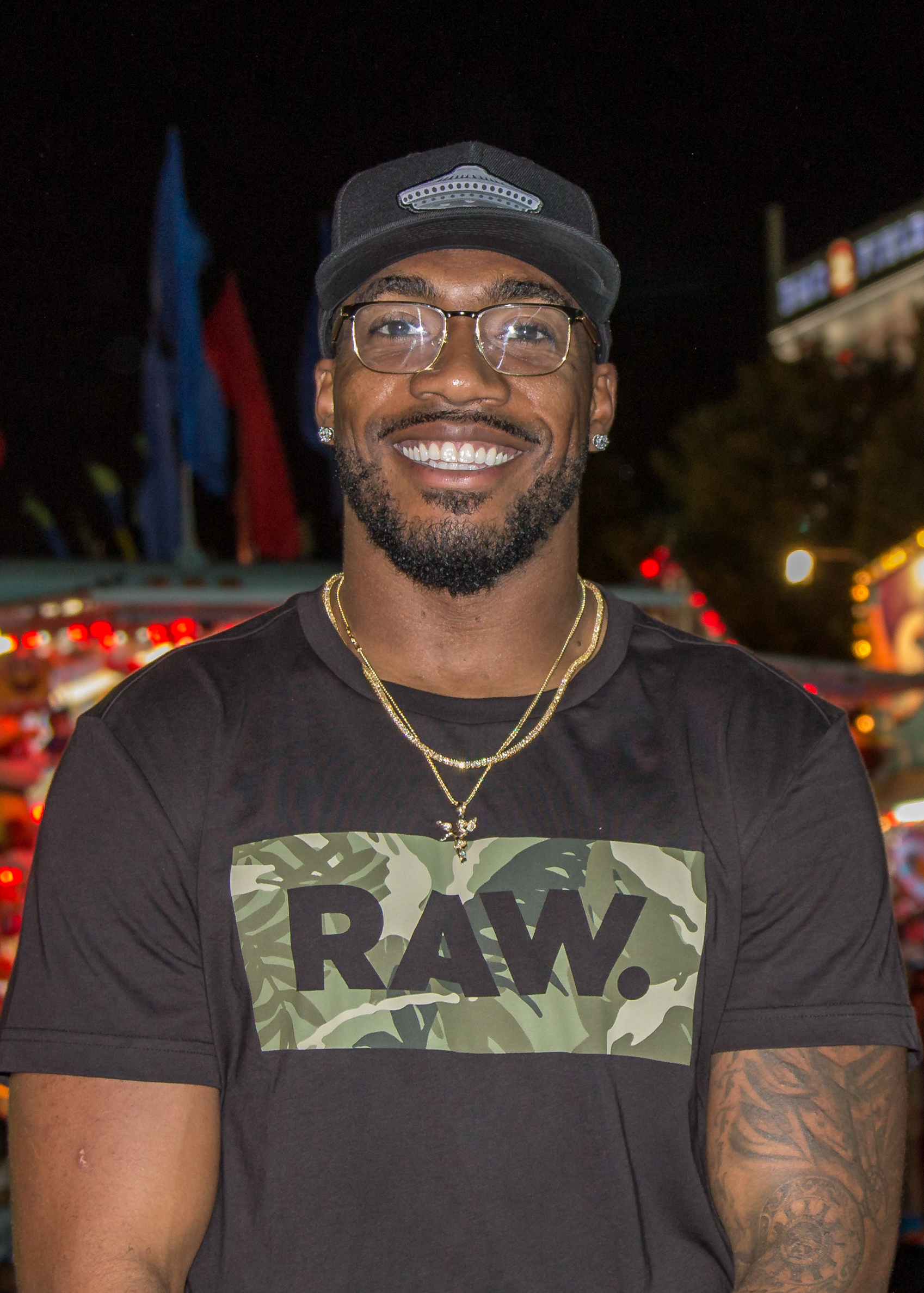 Justin Tuggle poses at Toronto's CNE for a photo shoot modeling his cap line. Photo via Reuben Polansky